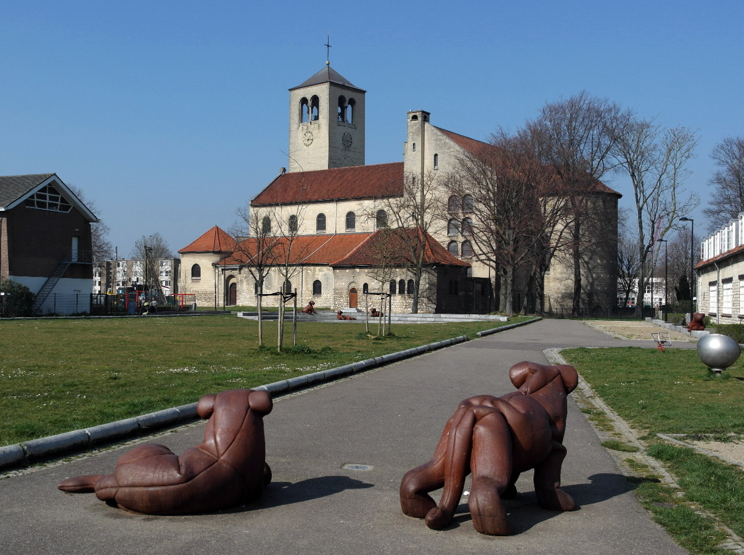 Maastricht, the Netherlands. View of small neighbourhood park south of the Church of Our Lady of Lourdes in Wittevrouwenveld. The six iron sculptures of lionesses are by the artist Marjolijn Mandersloot.